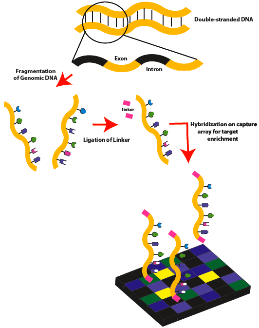 Exome sequencing workflow: Part 1. Double-stranded genomic DNA is fragmented by sonication. Linkers are then attached to the DNA fragments, which are then hybridized to a capture microarray designed to target only the exons.